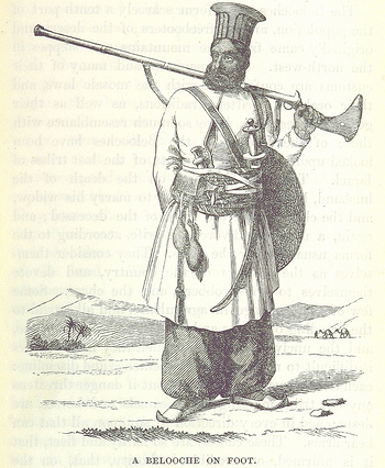 Baloch Man in Sindhi traditional pantaloon style Sindhi shalwar 1845